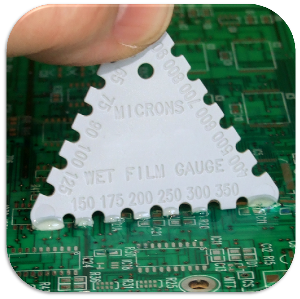 An alternative method to dry film measurement which is completed after application and drying of the conformal coating is the wet film technique which allows operators to ensure quality control while the coating is still wet. Applying too much coating can be expensive. Also wet film measurements are useful for conformal coatings where the dry film thickness can only be measured destructively or over application of conformal coating could be problematic. The wet film gauges are applied to the wet conformal coating and the teeth indicate the thickness of the conformal coating. The dry film thickness can then be calculated from the measurement based upon the solid resin content of the conformal coating.